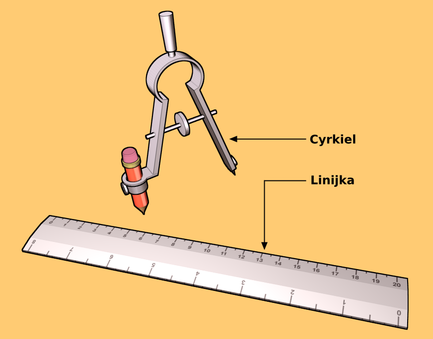 geometry